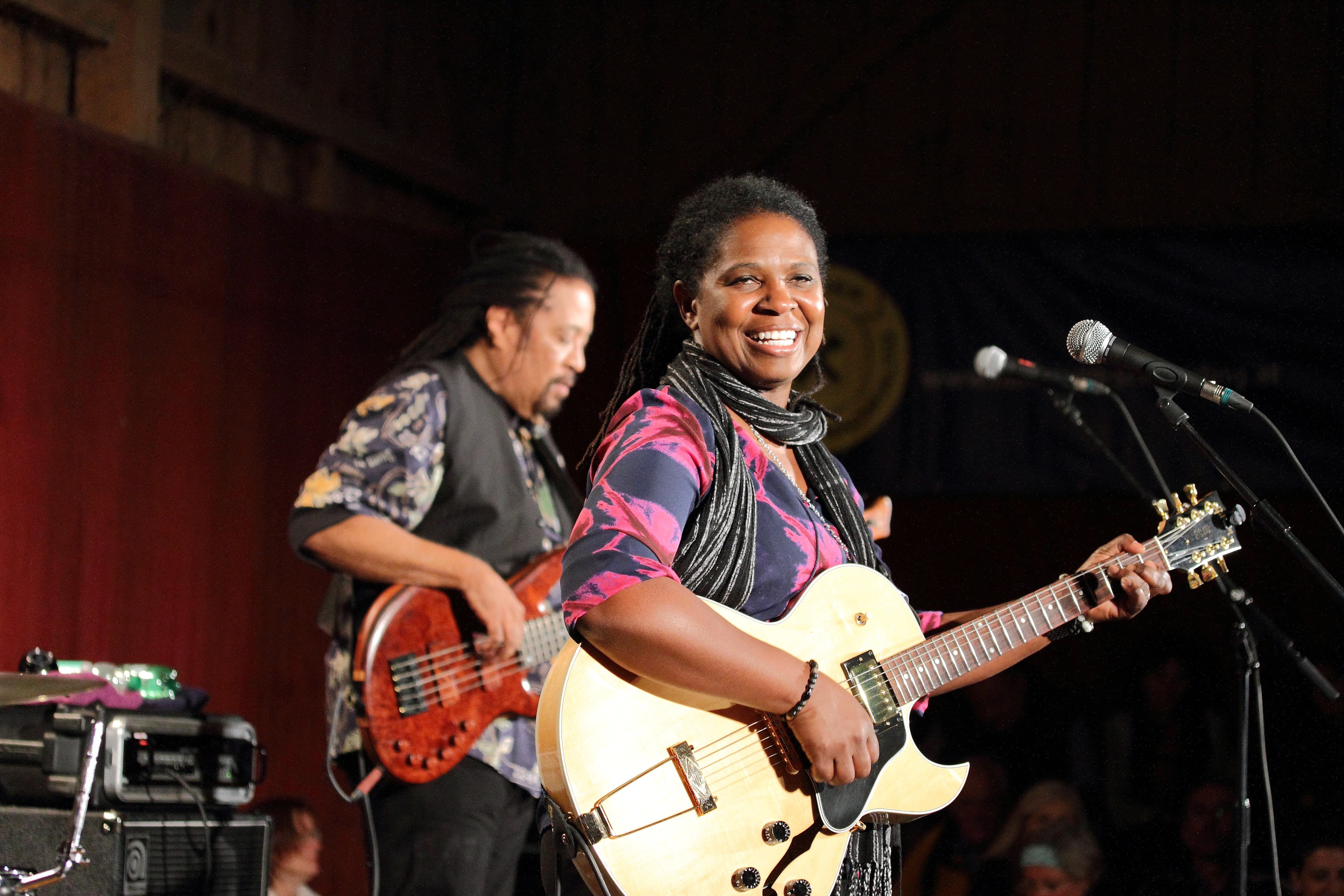 Ruthie Foster & Band at INNtöne Jazzfestival, Austria 2016.